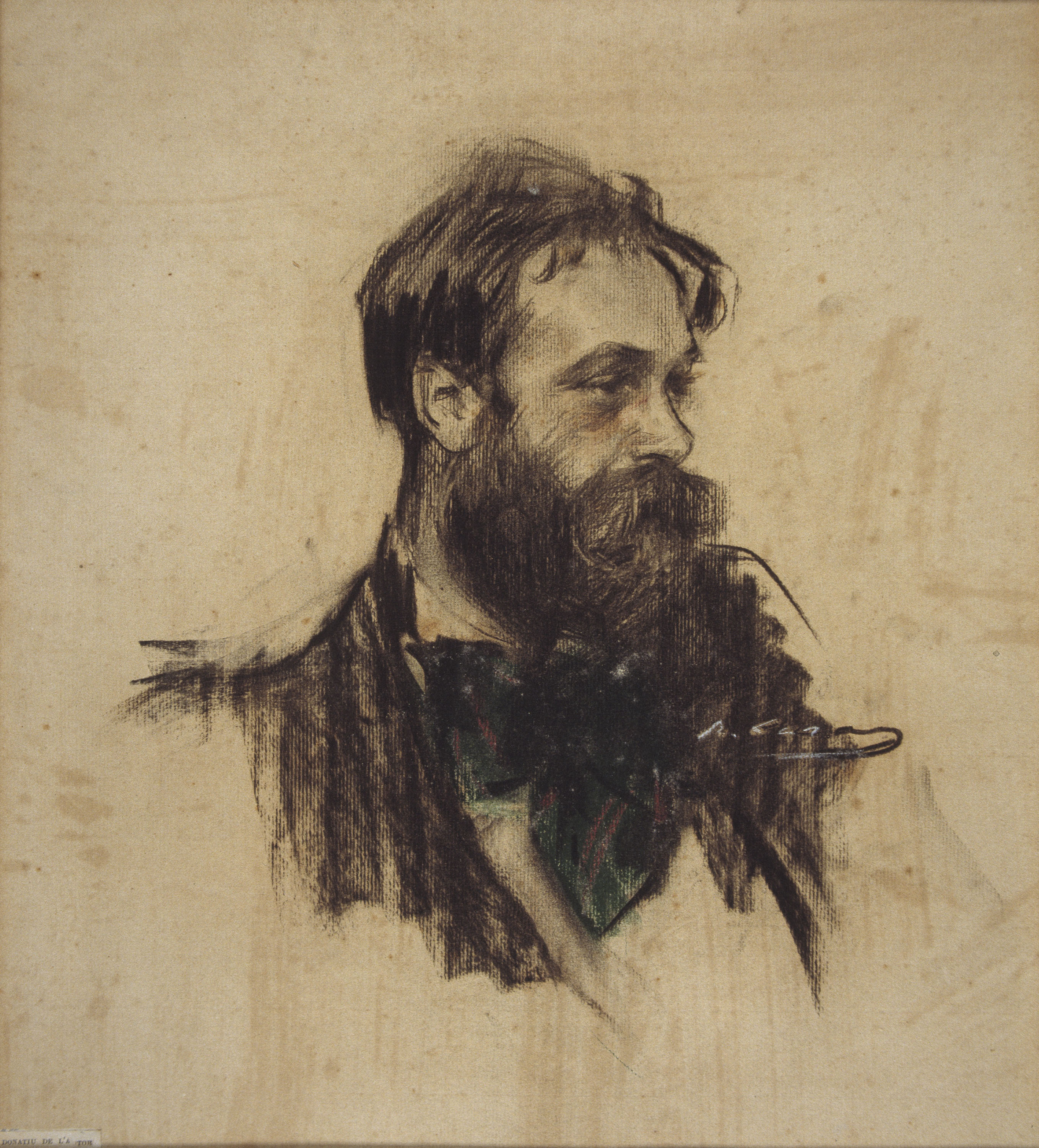 Portrait by Ramon Casas conserved at MNAC in Barcelona. Imagen 024